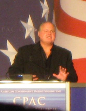 Rush Limbaugh at CPAC in February 2009.